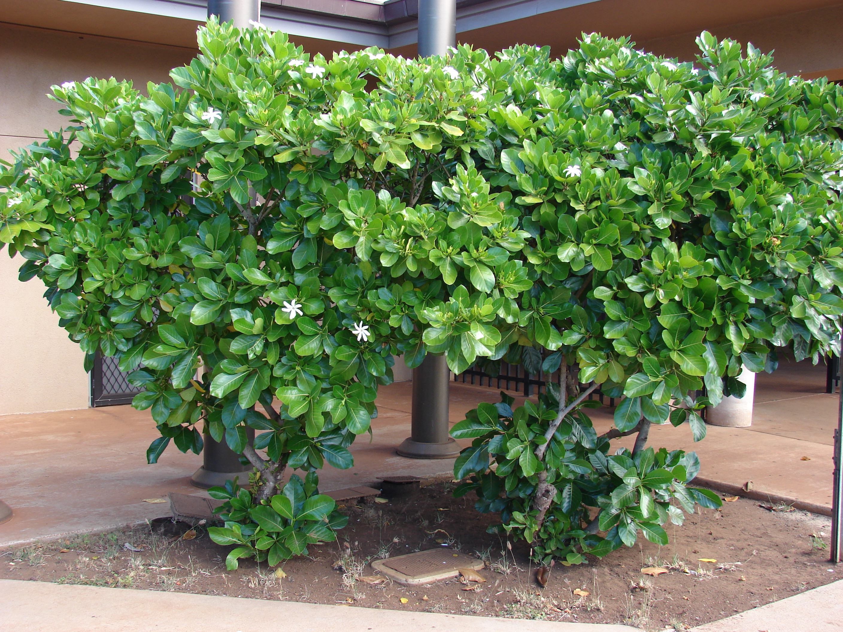 Gardenia taitensis (habit). Location: Maui, Lahaina Aquatic Center